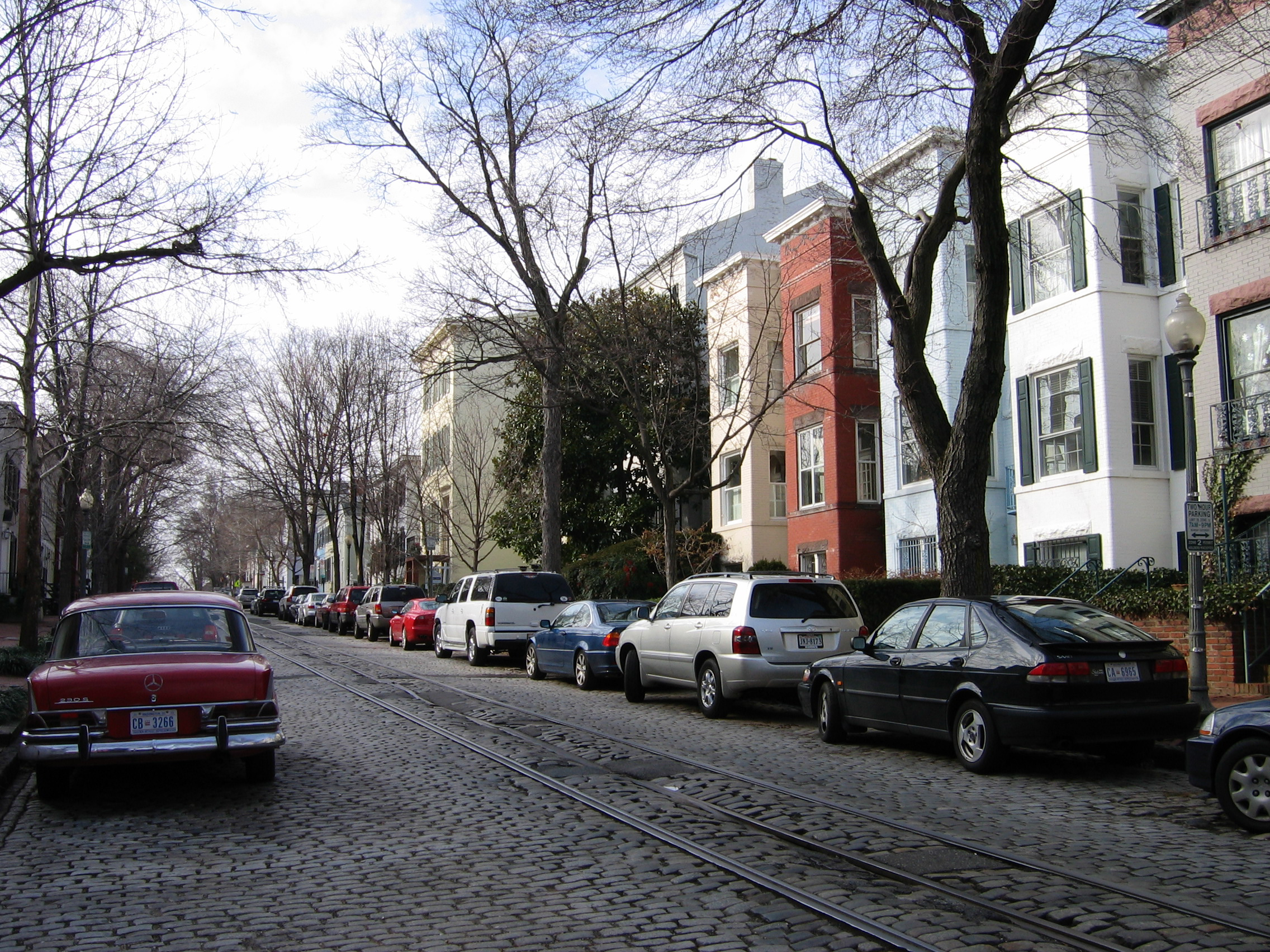 P Street NW, in Georgetown (Washington, D.C.), features conduit streetcar tracks that were installed in the 1890s. Photo by Kmf164, taken on February 1, 2006.